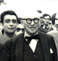 Visit of Le Corbusier to Iuav, Venice